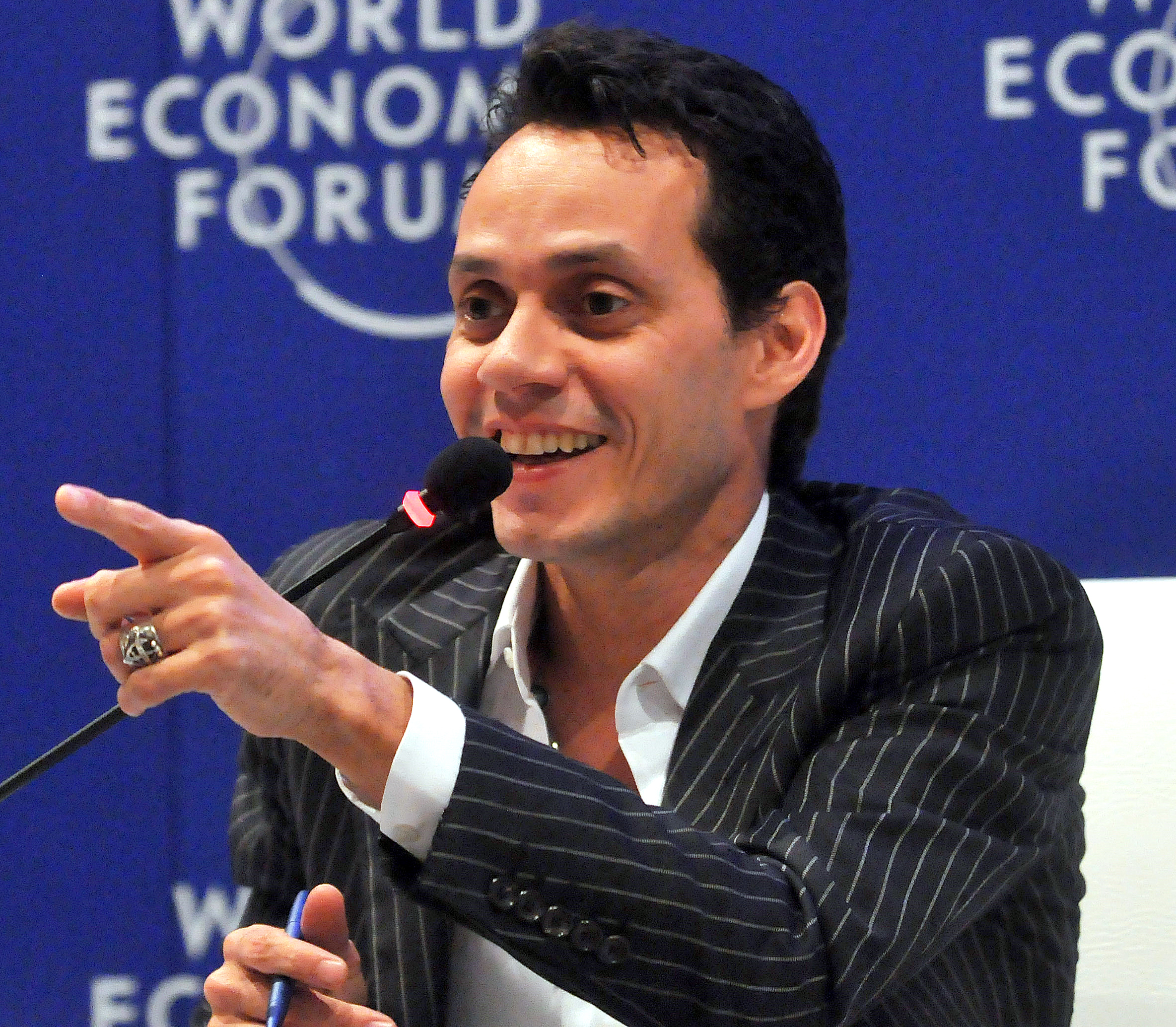 Marc Anthony at the World Economic Forum on Latin America 2010.